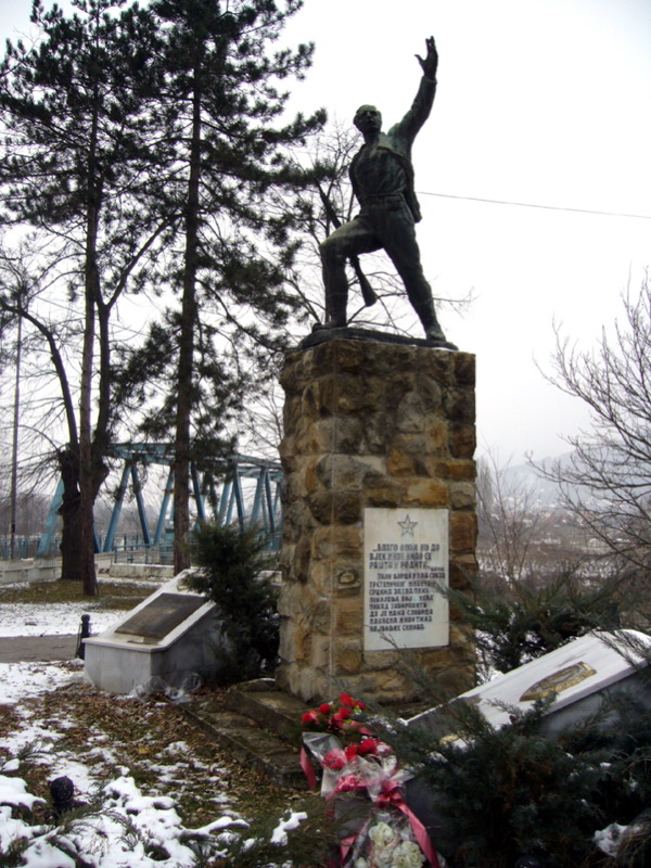 three wars